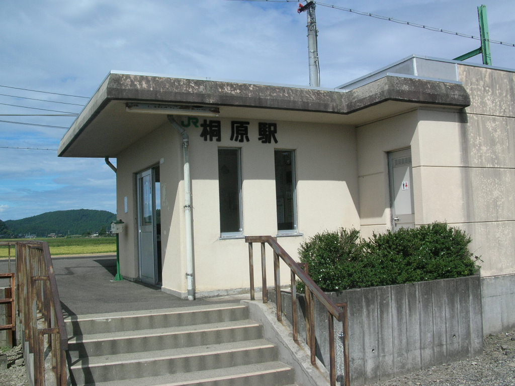 Kirihara Station in Niigata Prefecture